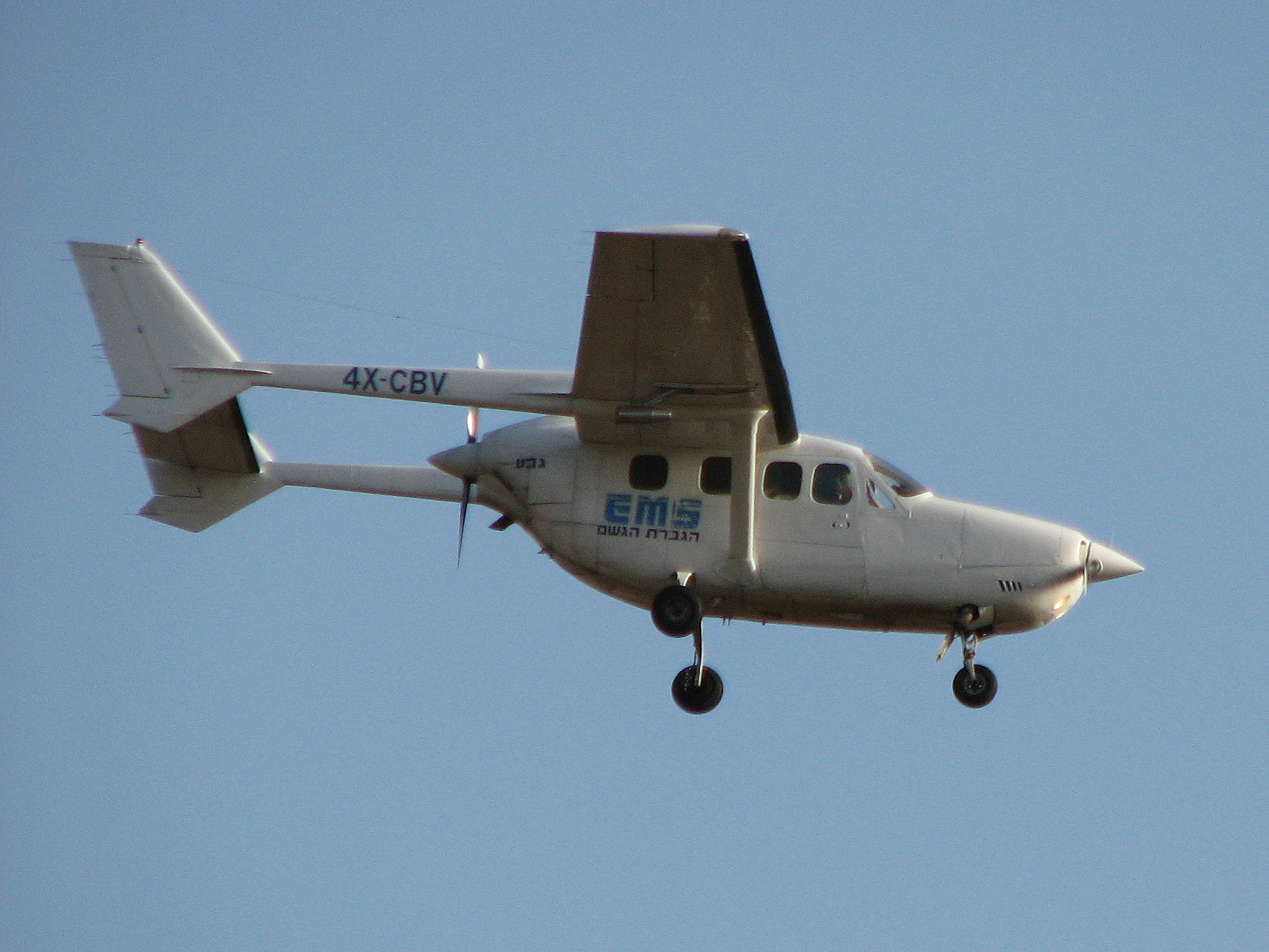 4X-CBV at Ben Gurion Airport.